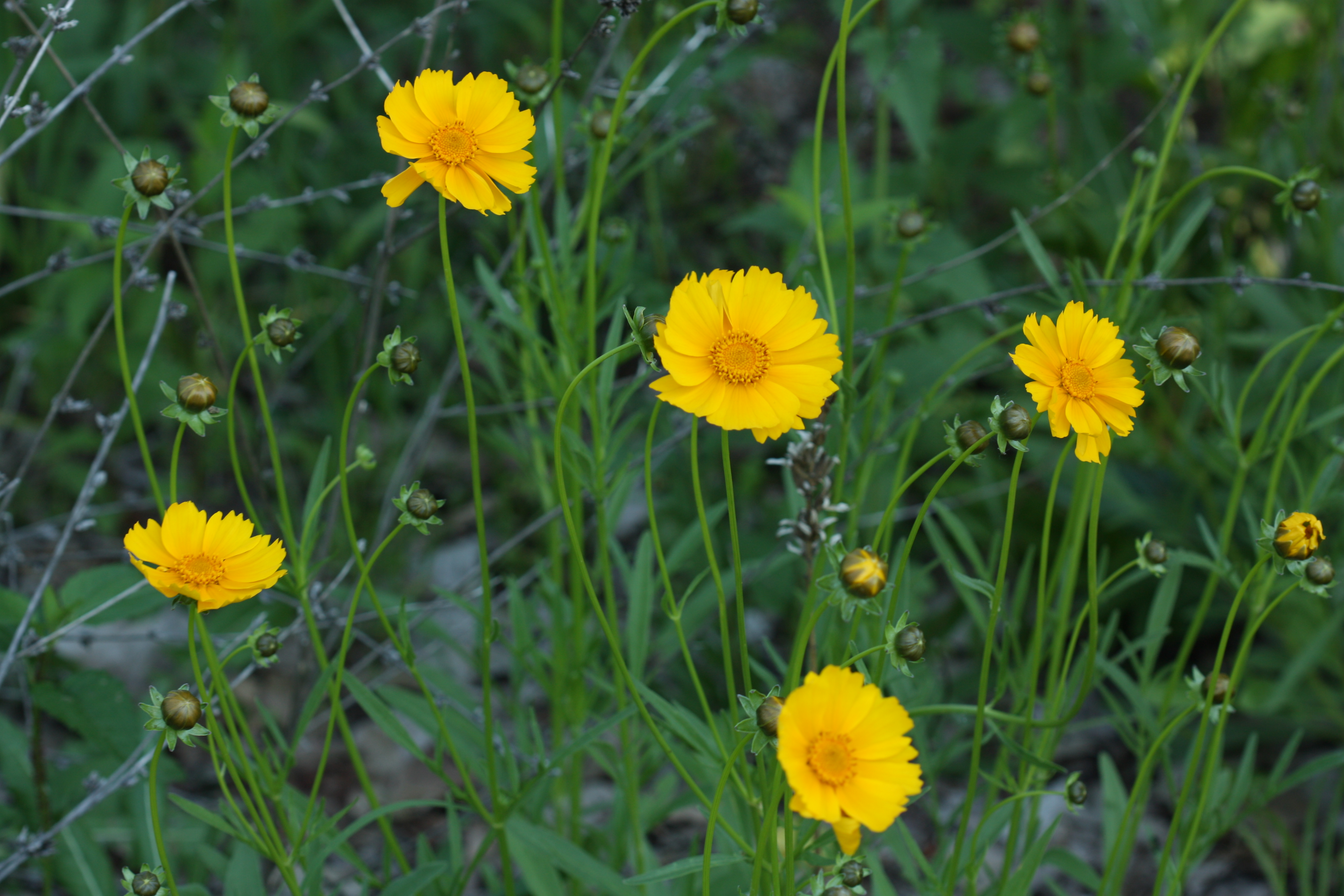 Coreopsis patch in Livonia Michigan